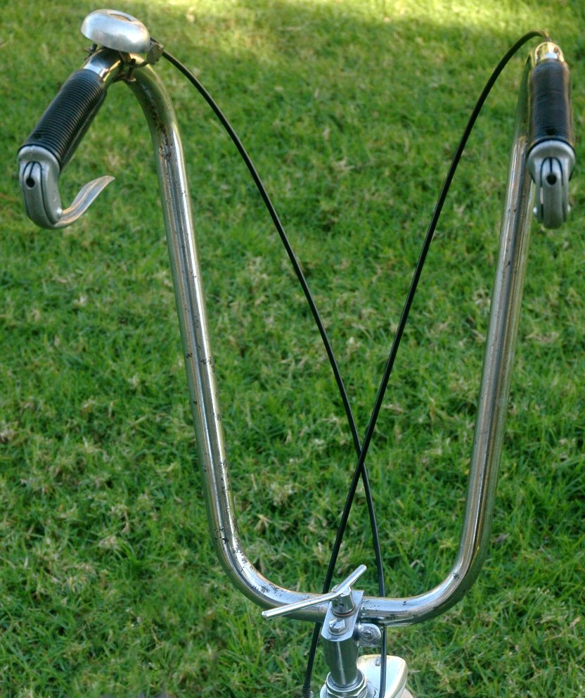 Handlebars of a 1965 Stella Poketby portable/folding bike.